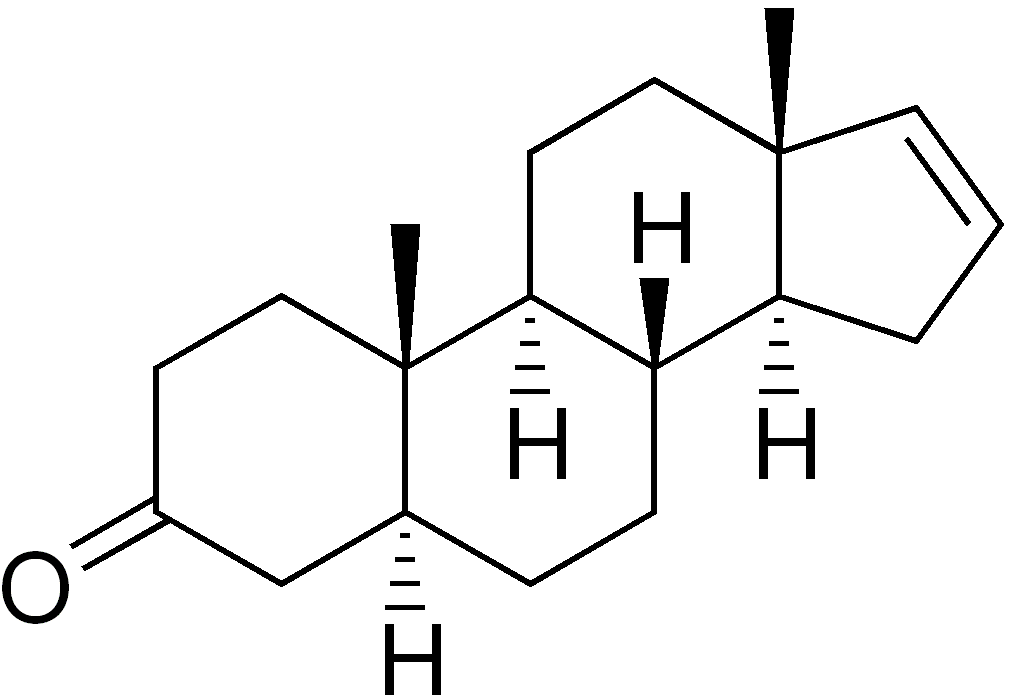 chemical structure of androstenone